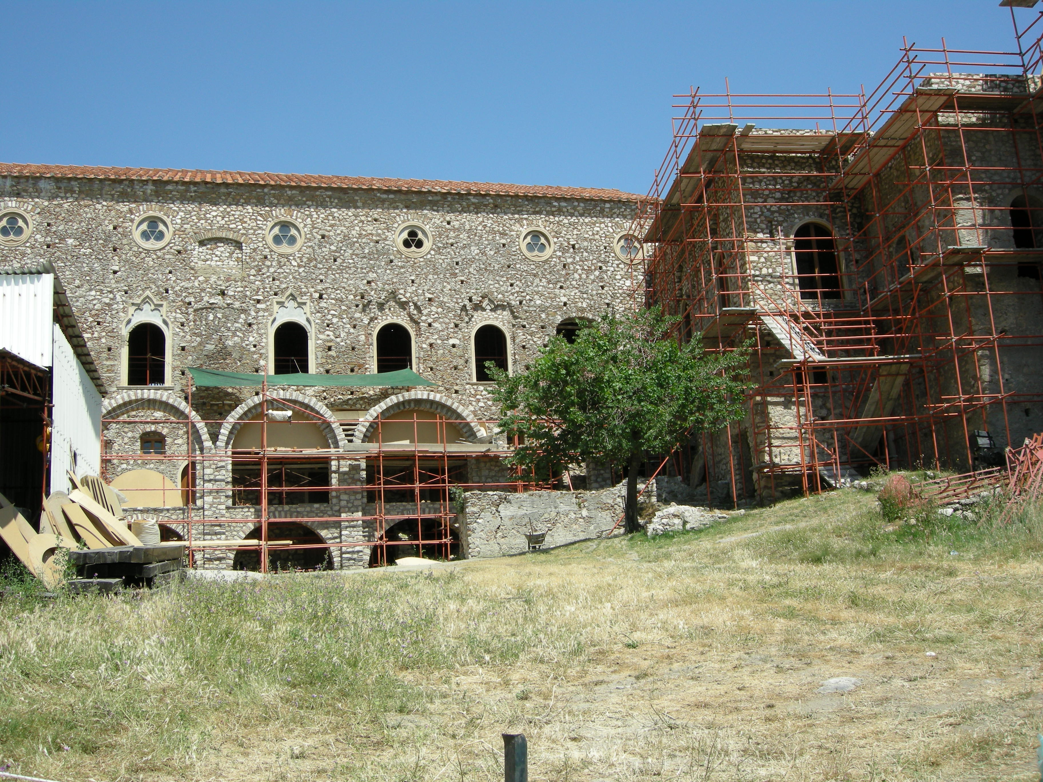 Palaces of mystra